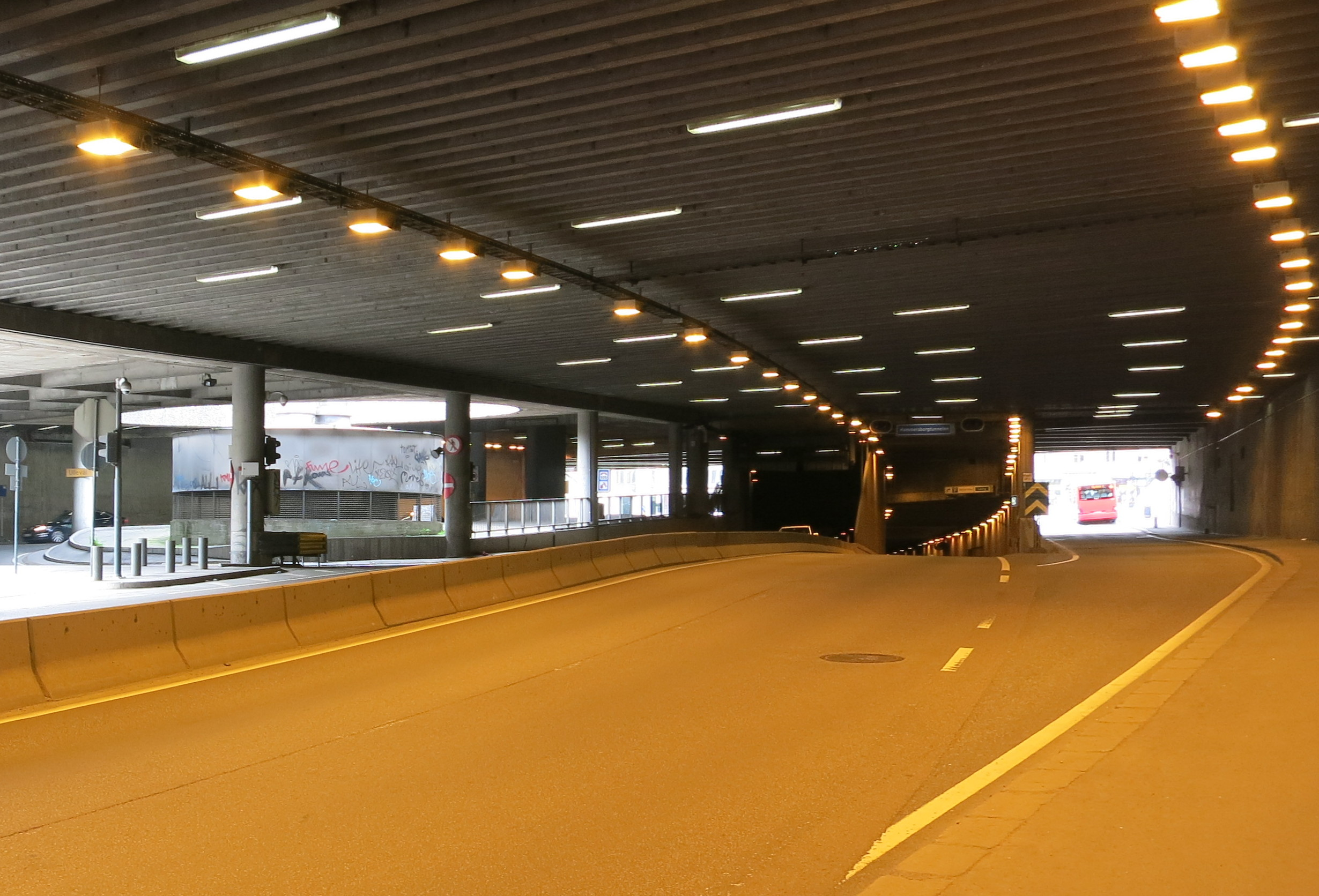 Hammersborg tunnel east entry